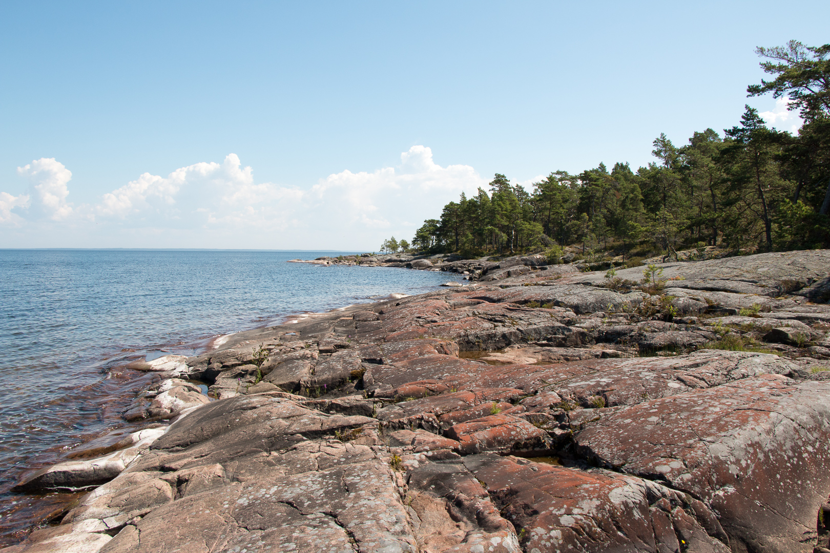 Coast of Timmerviken bay, Djurö